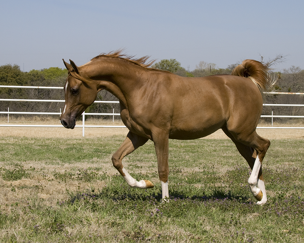 Trotting chestnut Arabian colt